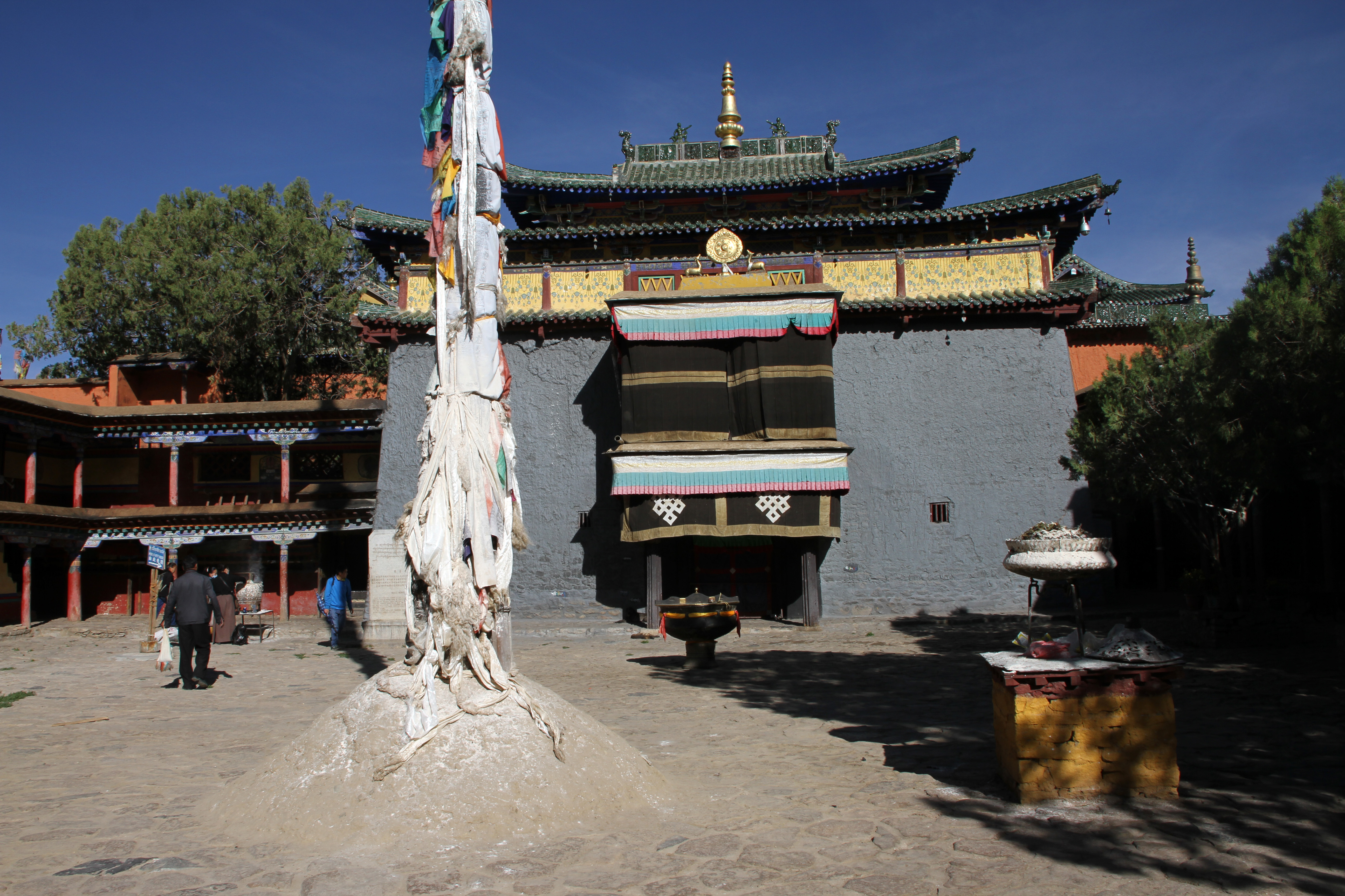 Shalu Monastery in Tibet